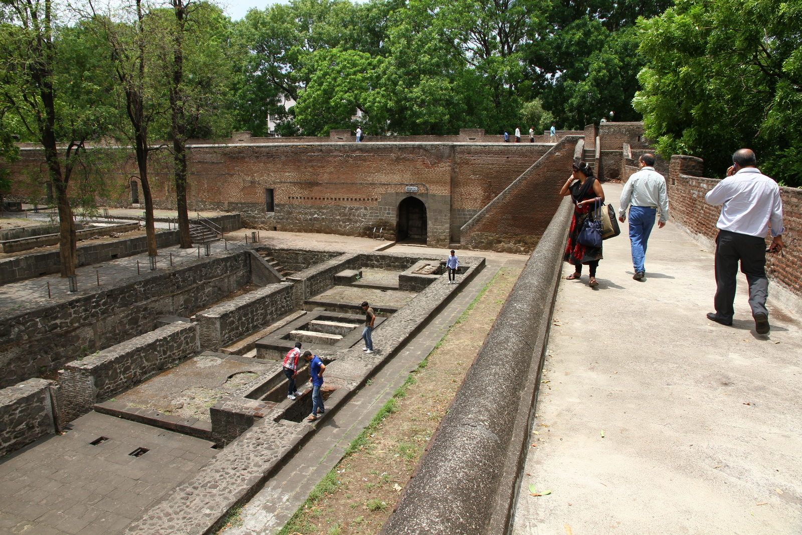 Shaniwar Wada palace walls and ruins below